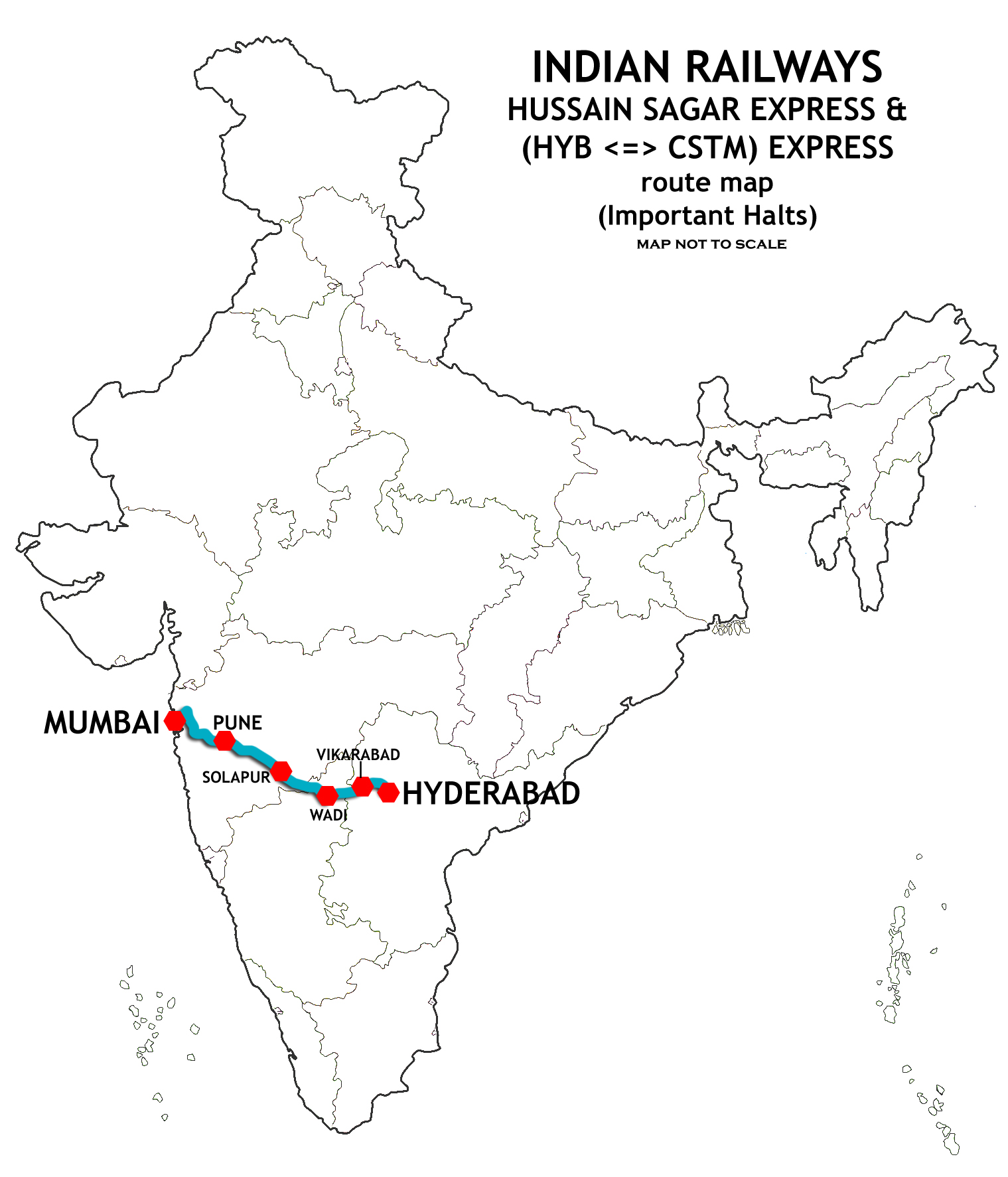 Hussainsagar Express and (HYB-CSTM) Express Route map